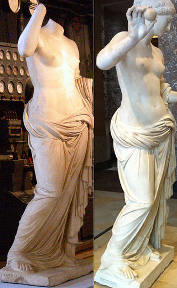 Rome, Centrale Montemartini (Musei Capitolini), statue of Aphrodite (type Venus of Arles), II,18, roman copy from greek original by Praxiteles (360 B.C.) - Comparison with the Venus of Arles (The Louvre) - CAUTION: The angle is not exactly the same